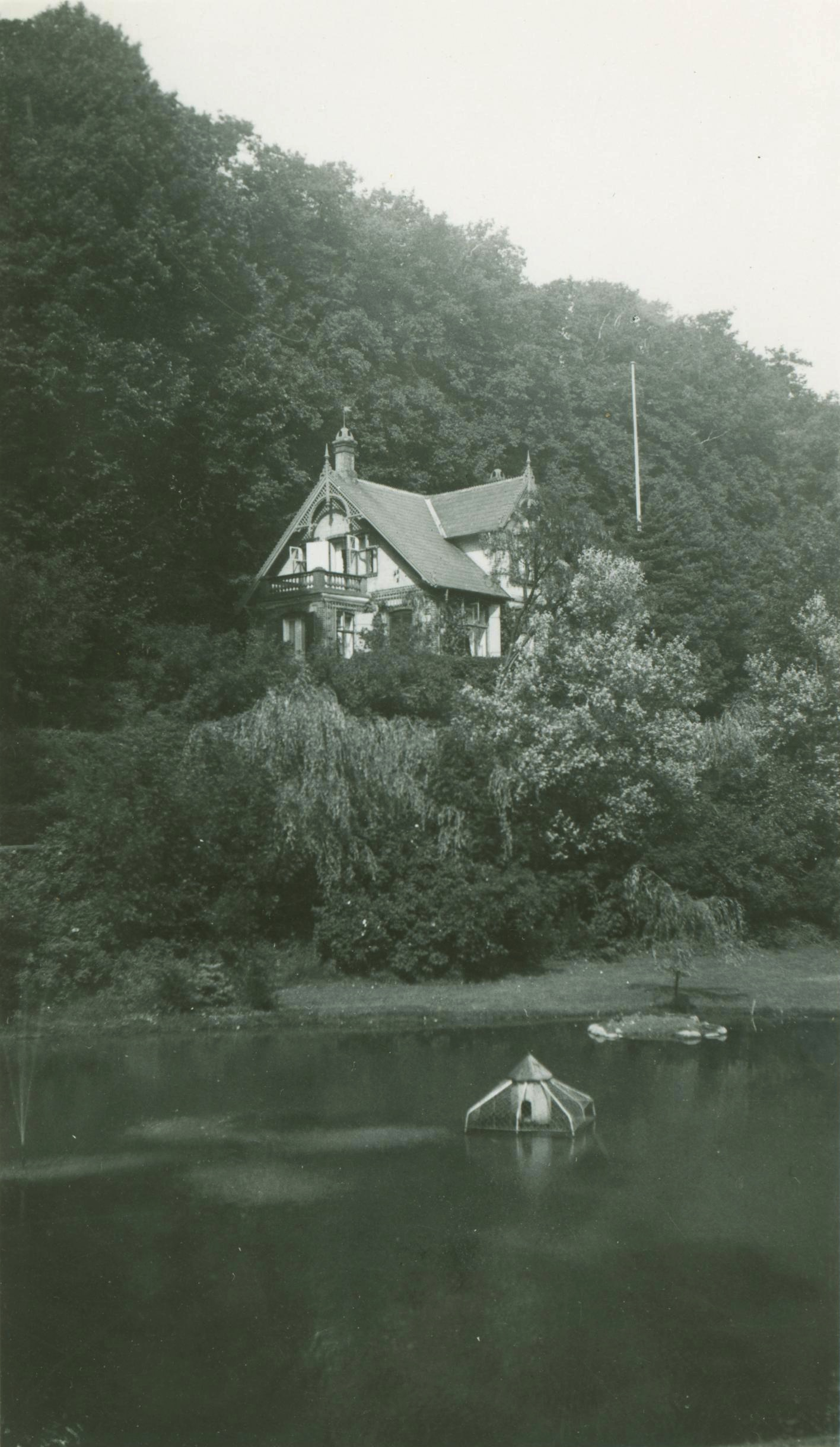 The Emperor's Villa